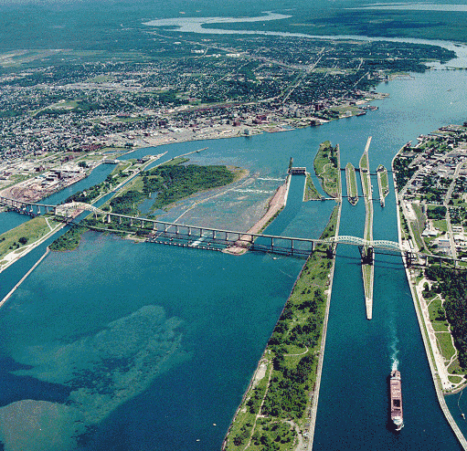 Aerial picture of the Soo Locks (downriver view) — in Michigan between Lake Superior and Lake Huron. Located between the cities of Sault Ste. Marie, Michigan, USA (right) and Sault Ste. Marie, Ontario, Canada (left). Whitefish Island is just to the left of the rapids, with the Canadian Sault Ste. Marie Canal partially in view to its left.